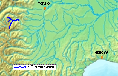 Germanasca creek location (TO, Italy)